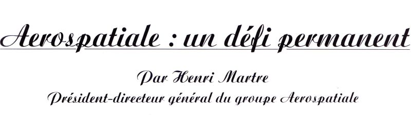 Title of the editorial of the Aerospace Review special issue in 1990 proving the true spelling of the company name without accent